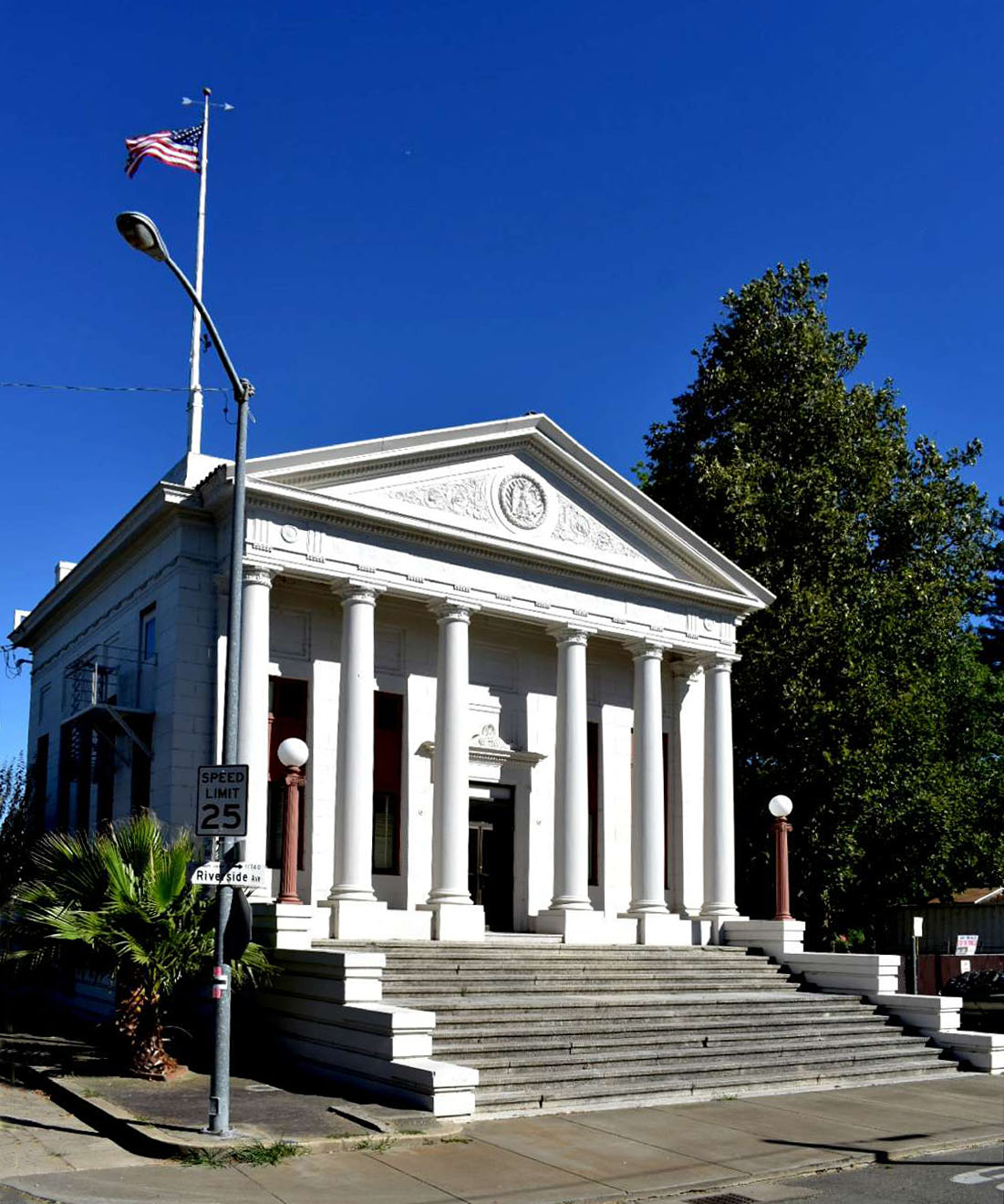 An abandoned courthouse in Courtland, California. Photo by Jim Heaphy.